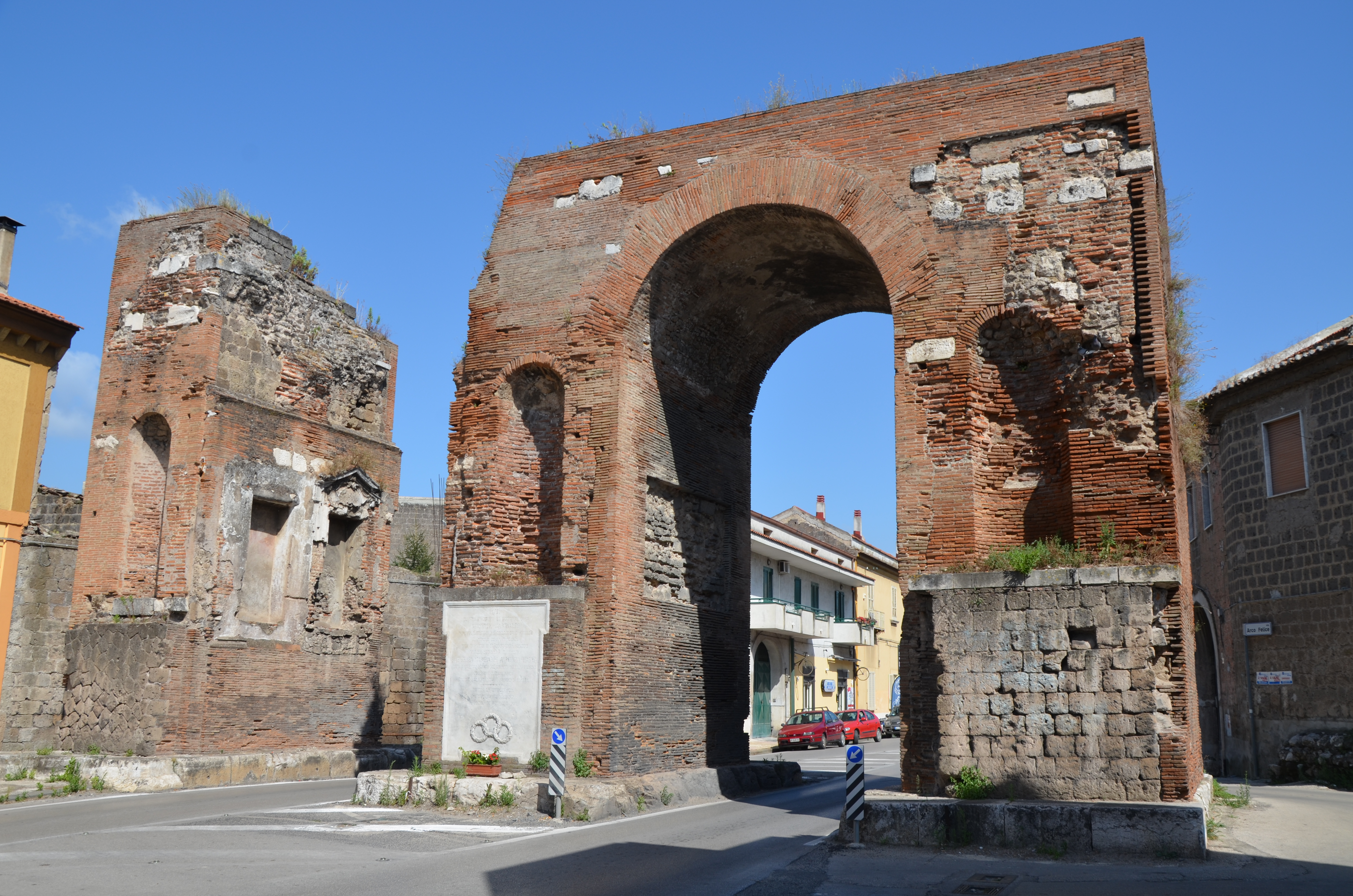 The Arch of Hadrian spanning the Appian Way, Northern side, Capua